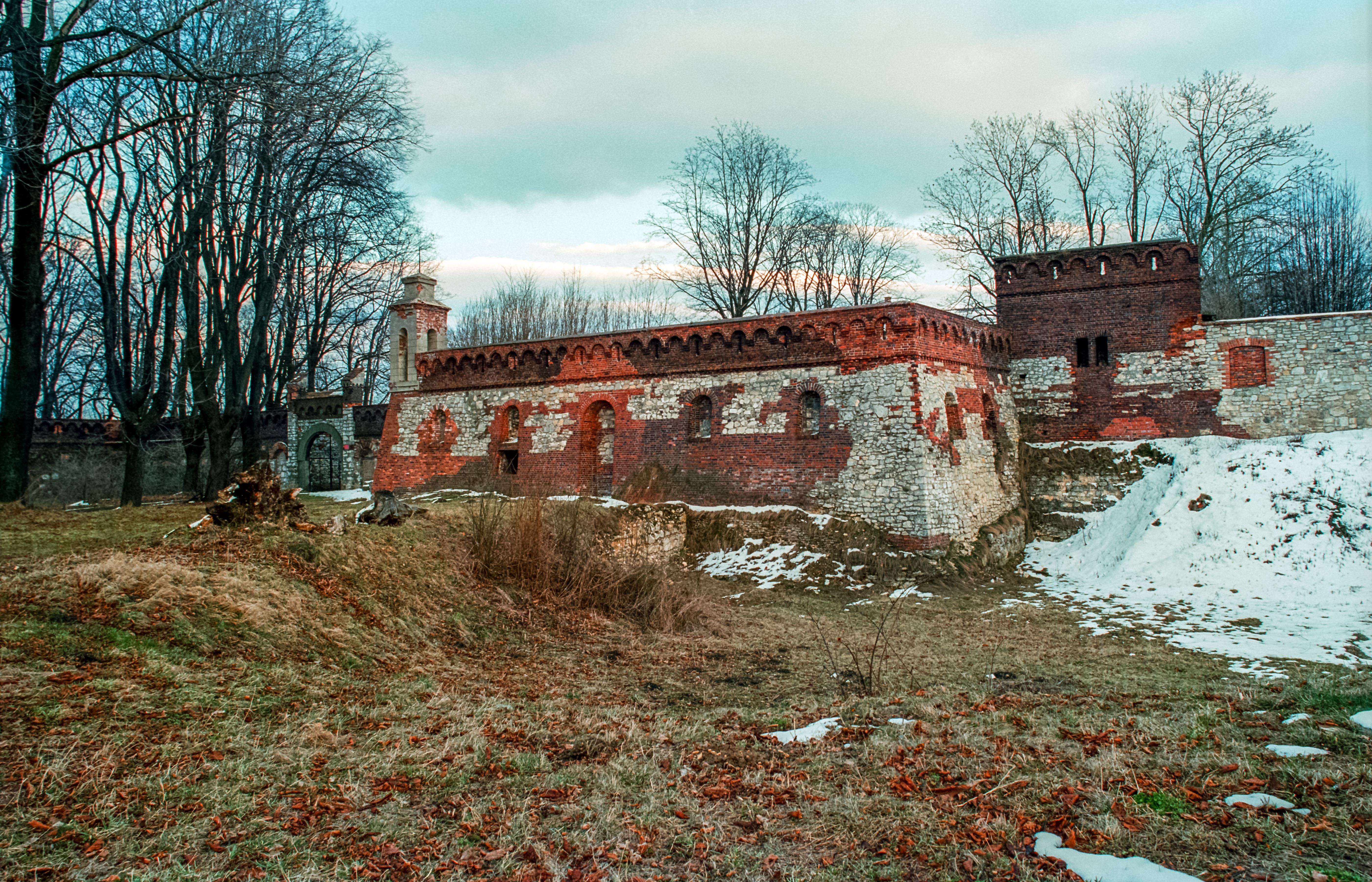 Poland, Jura, Pilica Castle